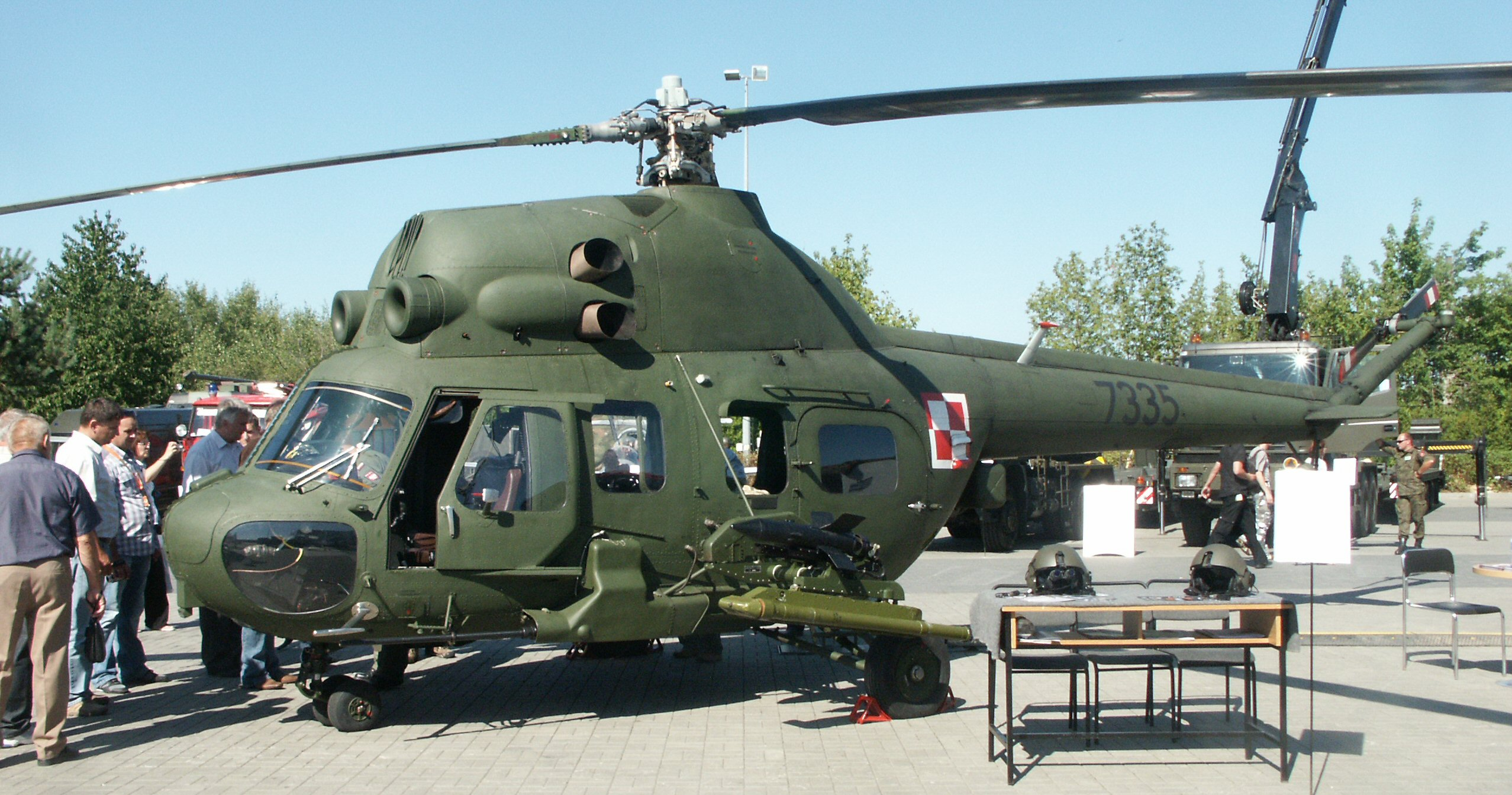 Polish attack helicopter Mil Mi-2URP-G.